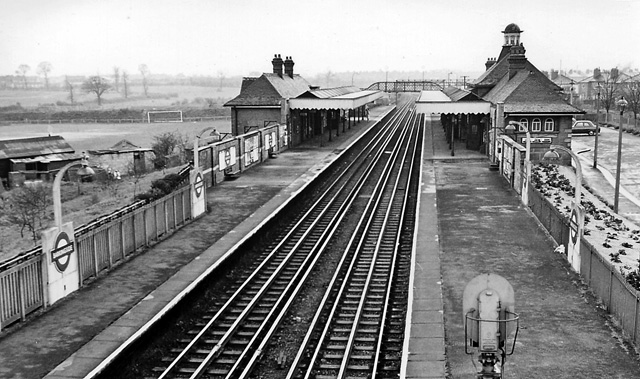 Barkingside Station. View southward, towards Newbury Park and London: LT Central Line (Hainault Loop), since 31/5/48; until 29/11/47 this was the LNER (ex-GER) Fairlop Loop, Ilford - Woodford. Hence it is a typical Great Eastern station, little changed apart from the UndergrounD signs.